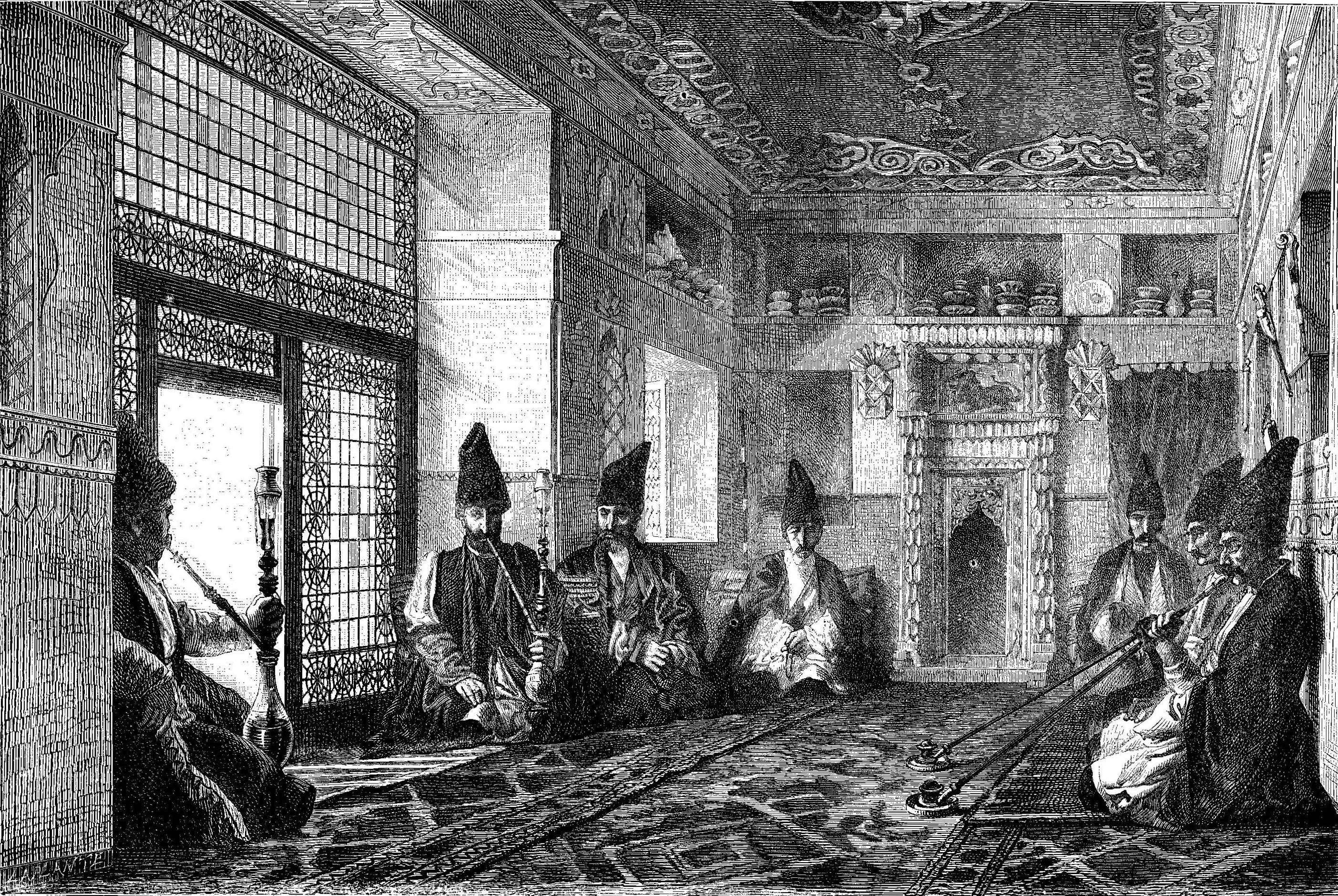 Hall in the house of a Tatar in Shusha (Russian authors and travelers often meant "Azerbaijani" under the word "Tartar")